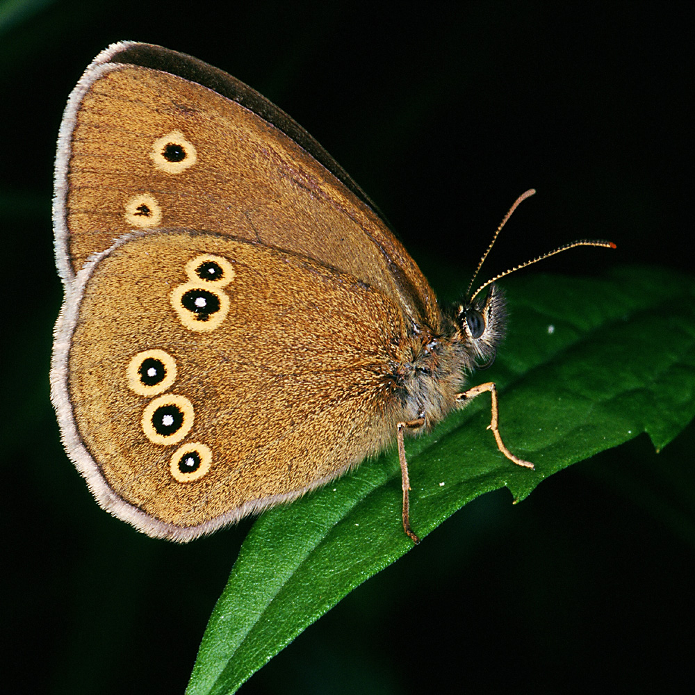 Ringlet (Aphantopus hyperantus). Location: Westlausitzer Hügel- und Bergland